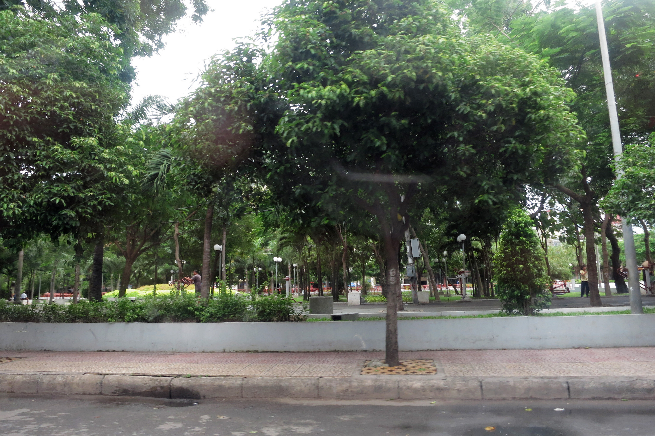 Park September 23 on Lê Lai Q1 (Phạm Ngũ Lão), Hồ Chí Minh, Tp., Vietnam.